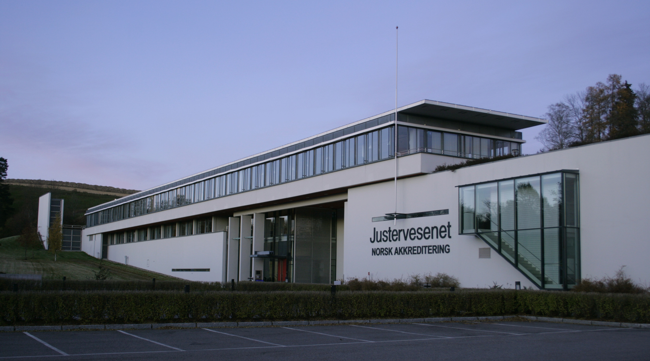 Norwegian Metrology Service, main office at Kjeller outside Oslo. Architect: Kristin Jarmund